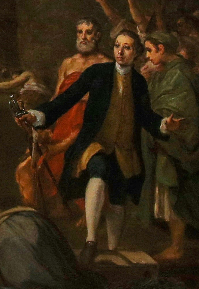 The Earthquake of 1755, painted from 1756 to 1792 by João Glama Ströberle (1708-1792). Currently in the National Museum of Ancient Art, Lisbon, Portugal.